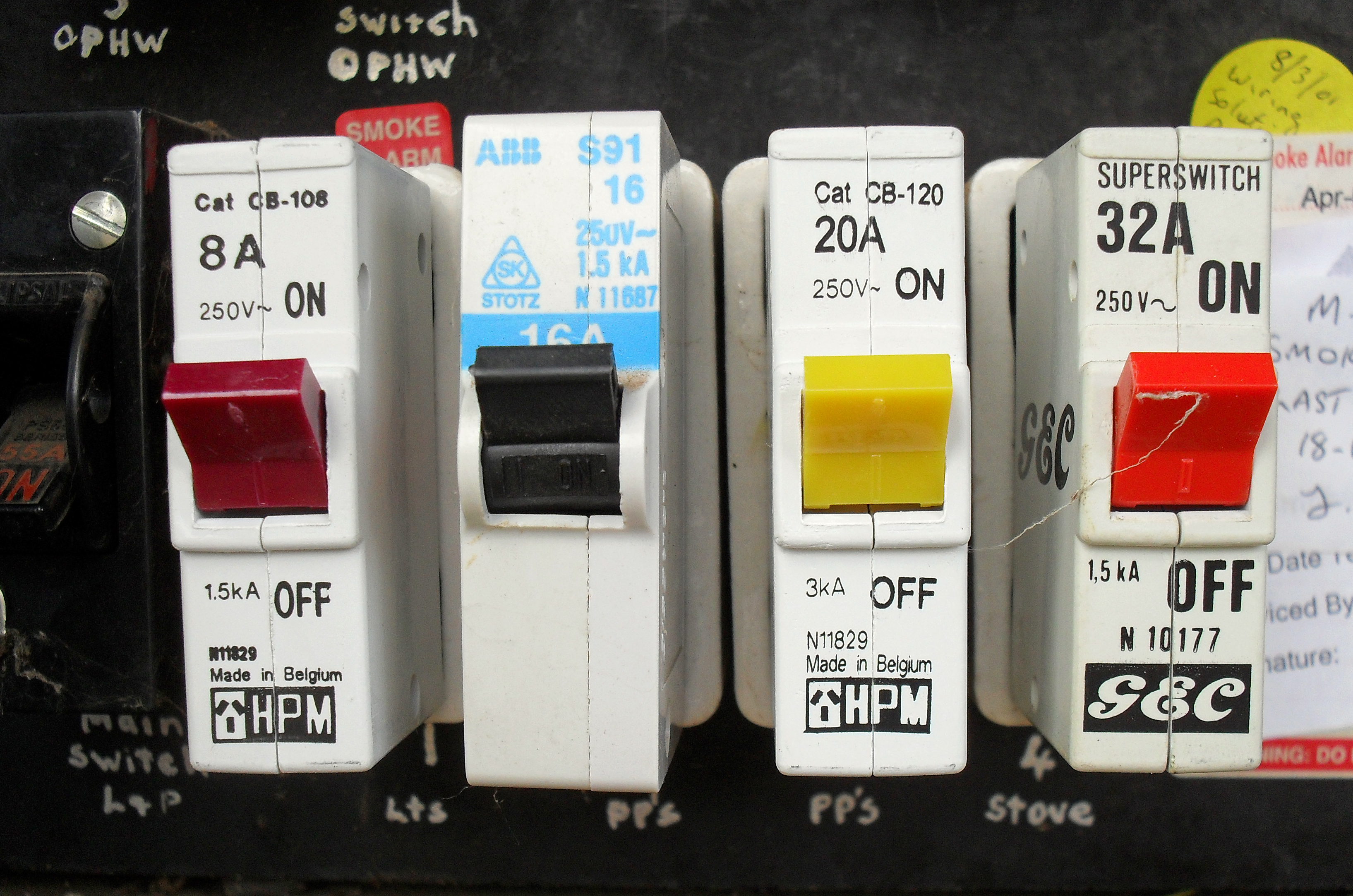 Four 1 (single) pole circuit breakers fitted in a meter box. Because this photograph concerns privacy since this was taken on a private property, only an approximate location is provided: Wagga Wagga, New South Wales, Australia